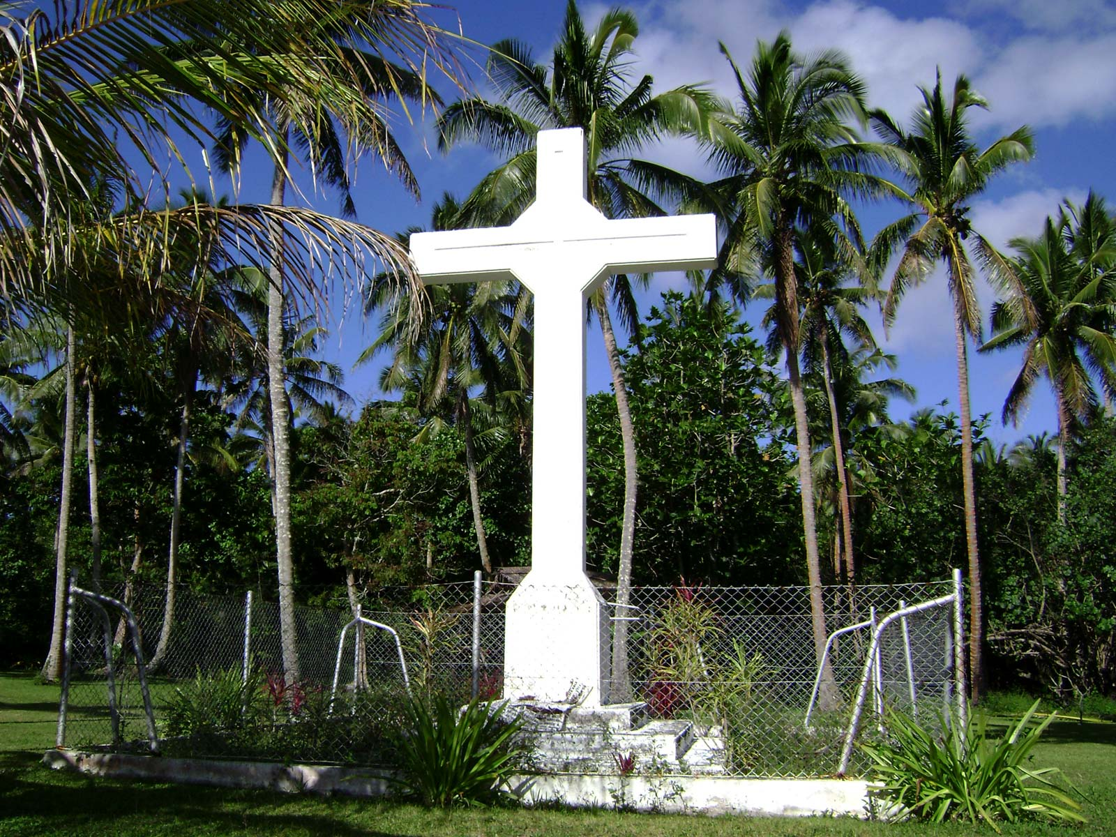 momument to remember the first catholic mass in Tonga, on Pangaimotu on 2 july 1842